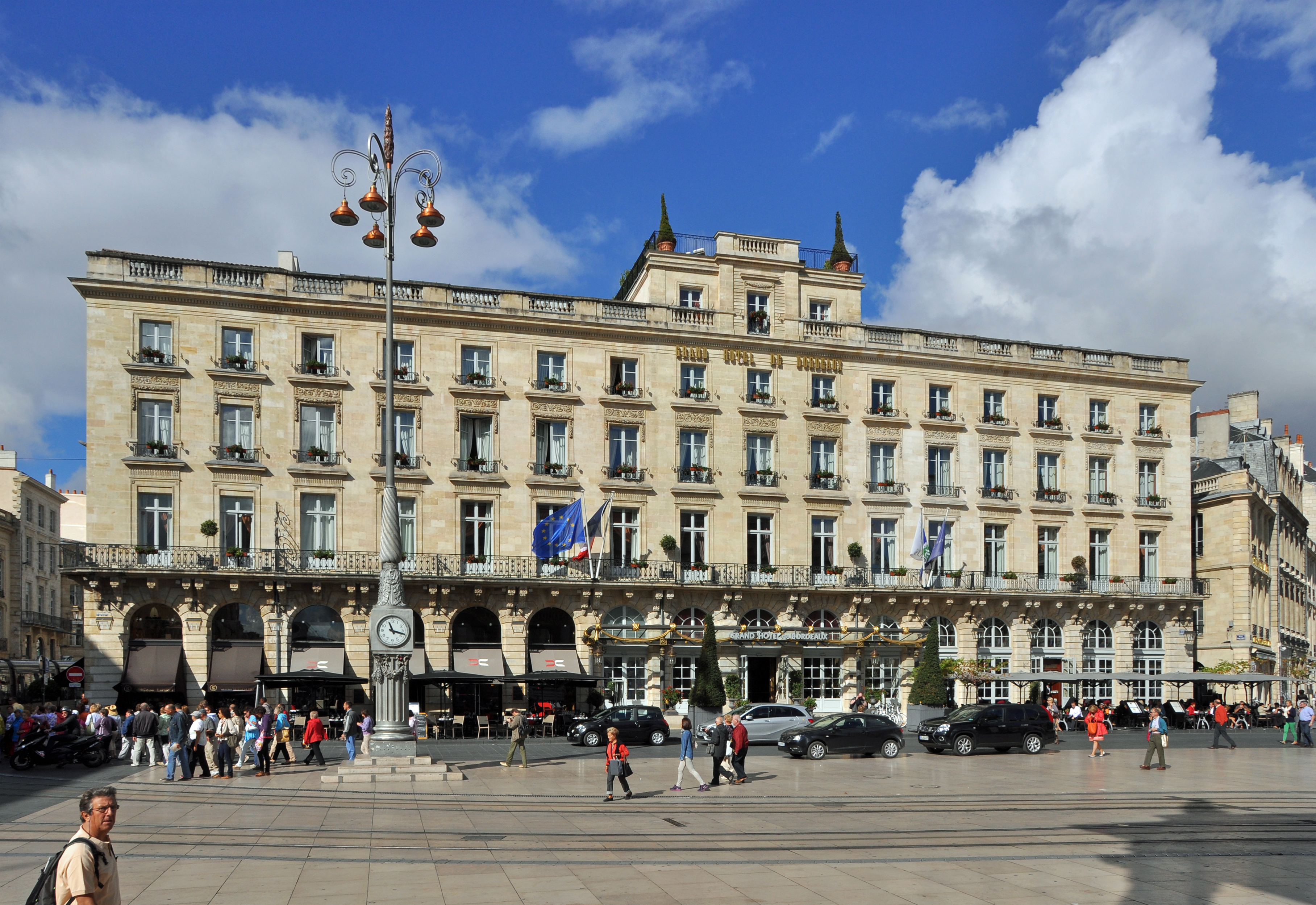 Bordeaux (France): the Grand Hotel, Place de la Comédie